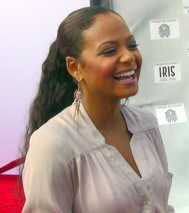 Christina Milian at the World Premiere of IRIS by Cirque du Soleil 2011.